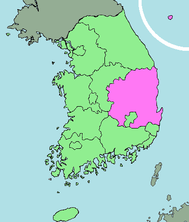 area map of Gyeongsangbuk